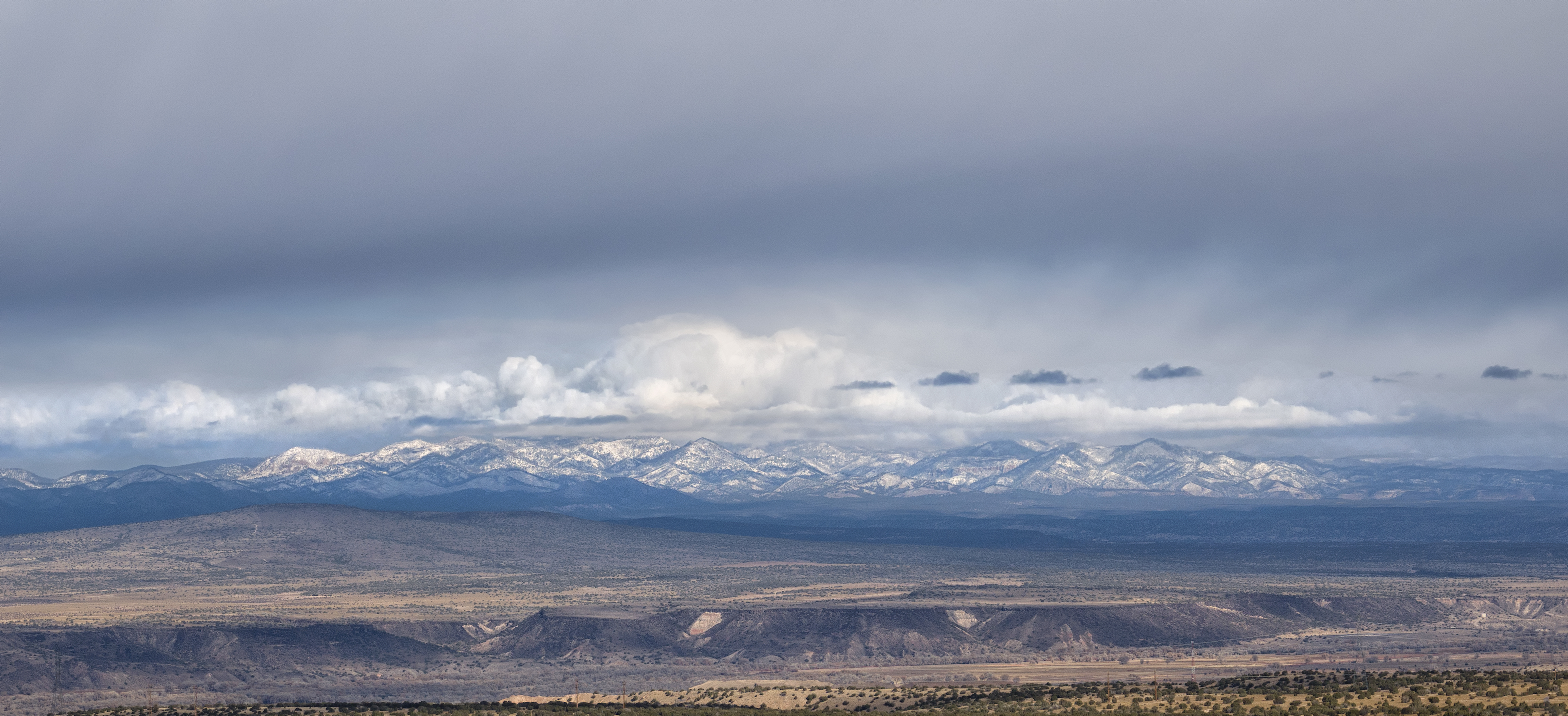 Looking north from the deck this morning. The Jemez mountains have their first coating of snow. The Rio Grande River is just below the escarpment.